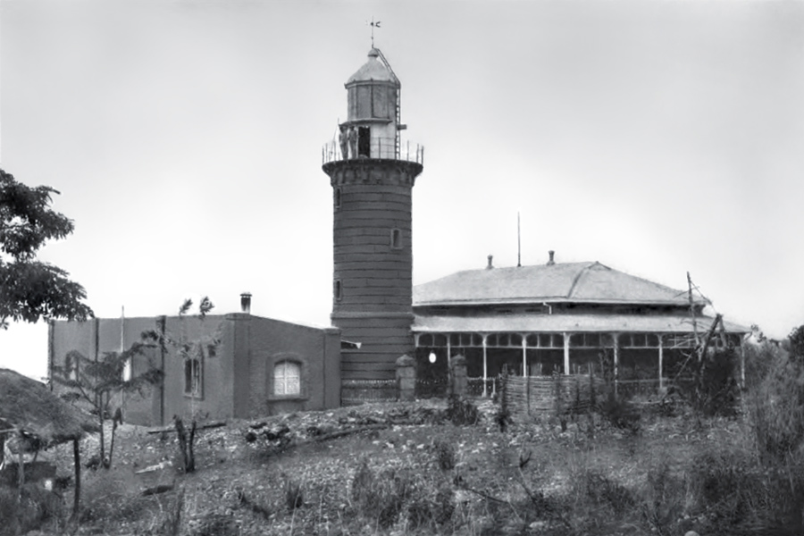 The Malabrigo Point Lighthouse in Lobo, Batangas, Philippines. First lit on October 1, 1895.